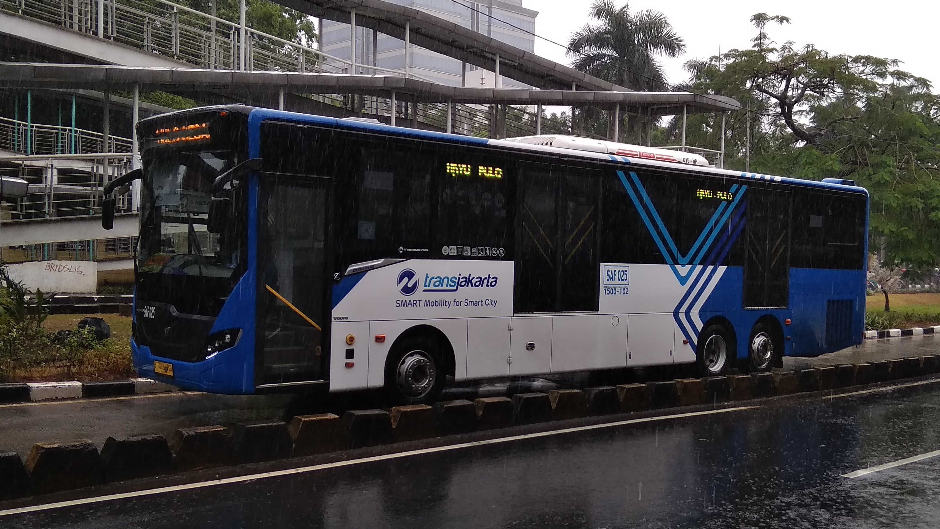 Transjakarta - the Volvo B11R operated by Steady Safe, arrive at Walikota Jakarta Timur bus shelter at Corridor 11.